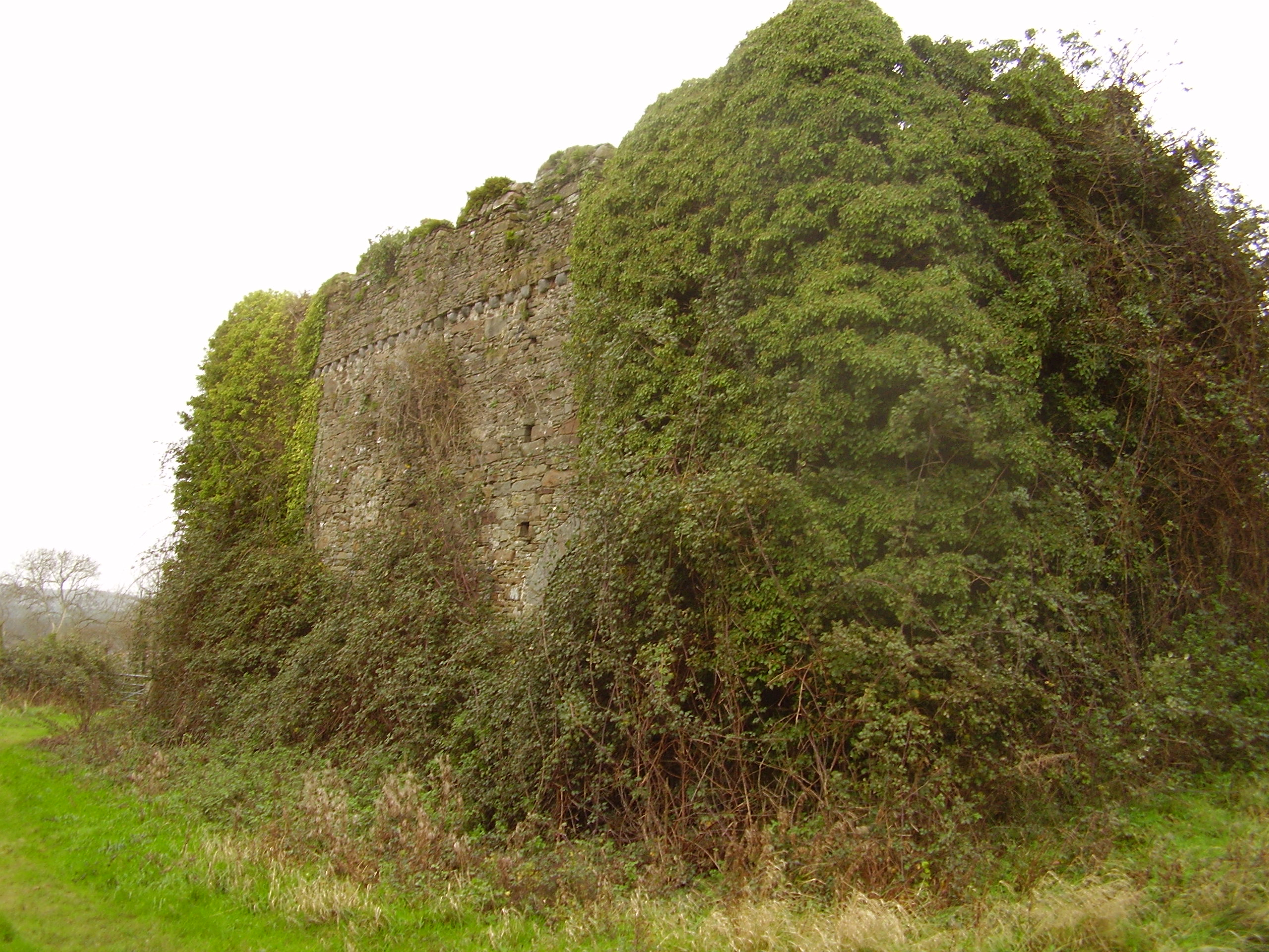 Court Farm, Pembrey, Wales, south aspect of barn, 2007